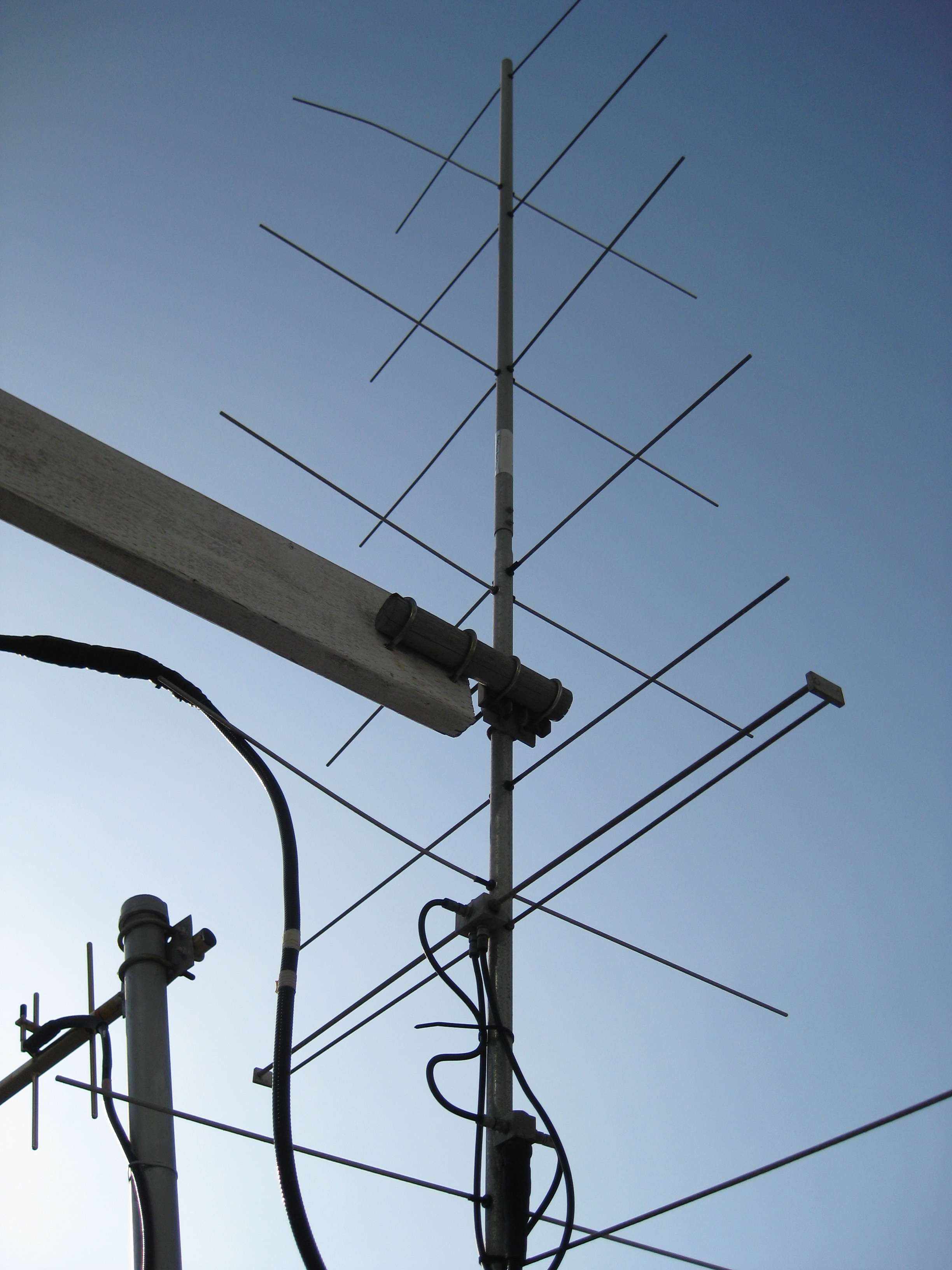 ATS-3 Satellite VHF Ground Station Antenna on the roof of the American Red Cross Office in San Francisco, CA.